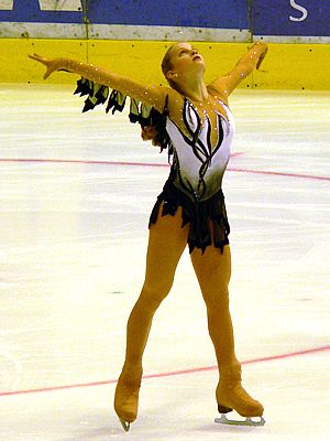 Veronika Kropotina during her free skate at the 2005 Junior Grand Prix event in Croatia